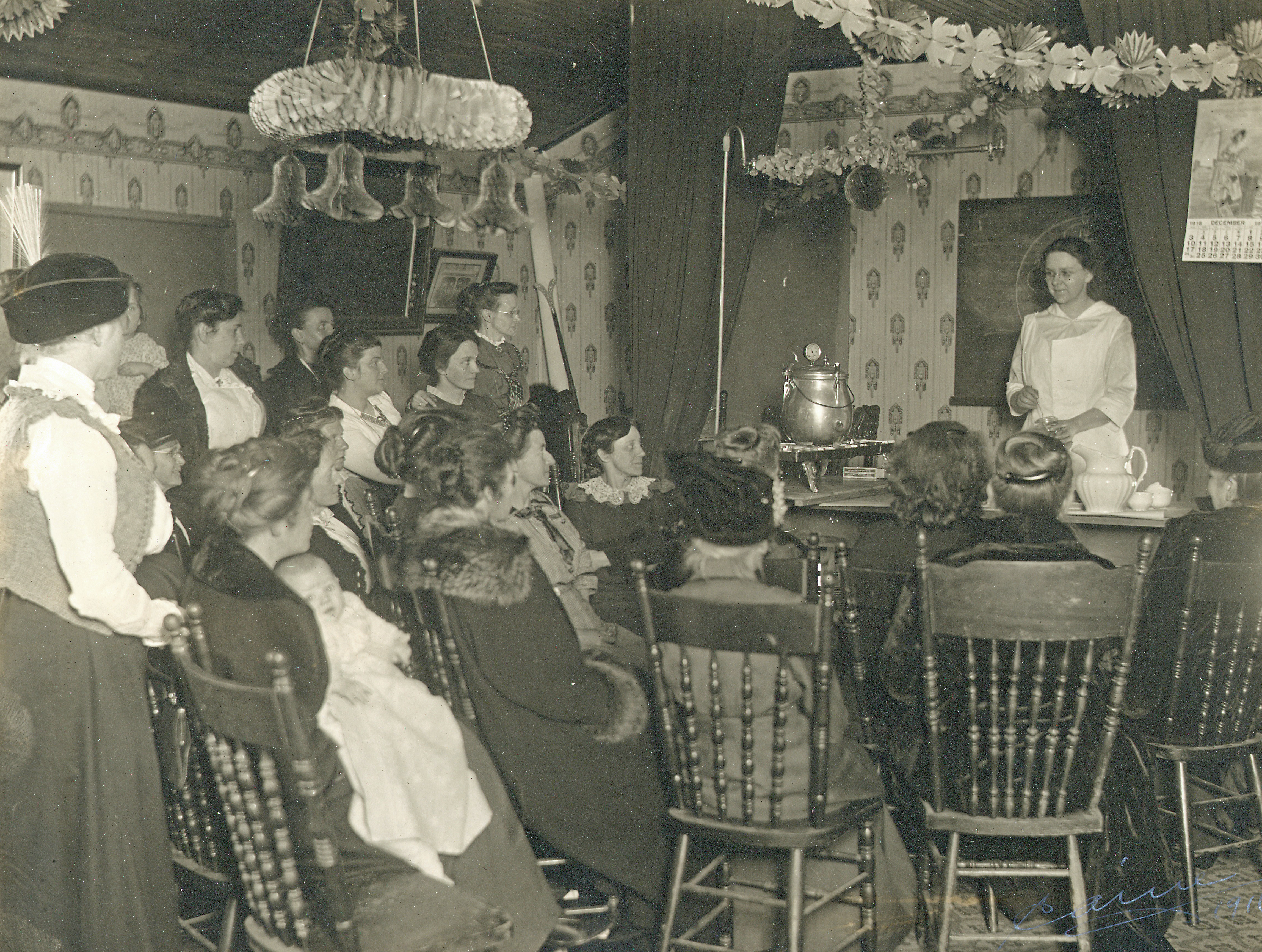 Farm and Home Bureaus: Meat canning demonstration at meeting of the Akron Home Economics Club on December 19, 1916. Sponsored by the Erie County Farm Bureau. Collection #23-2-749, item PR-PO-01 Div. Rare & Manuscript Collections, Cornell University Library